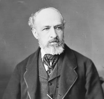 Thomas Heath Haviland